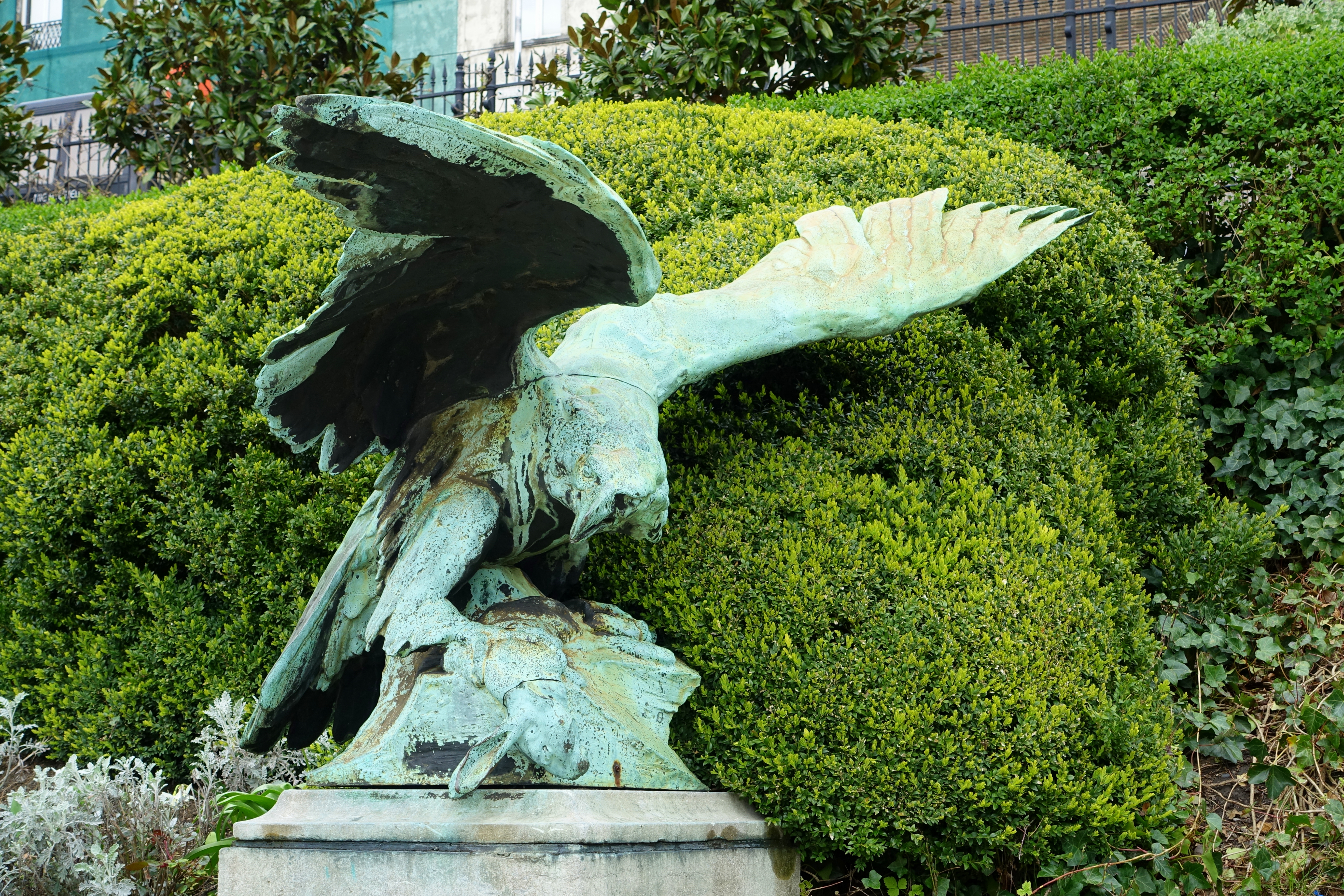 Eagle by Henri Boncquet - Botanical Garden of Brussels - Brussels, Belgium. This work is in the public domain because the sculptor died more than 70 years ago.